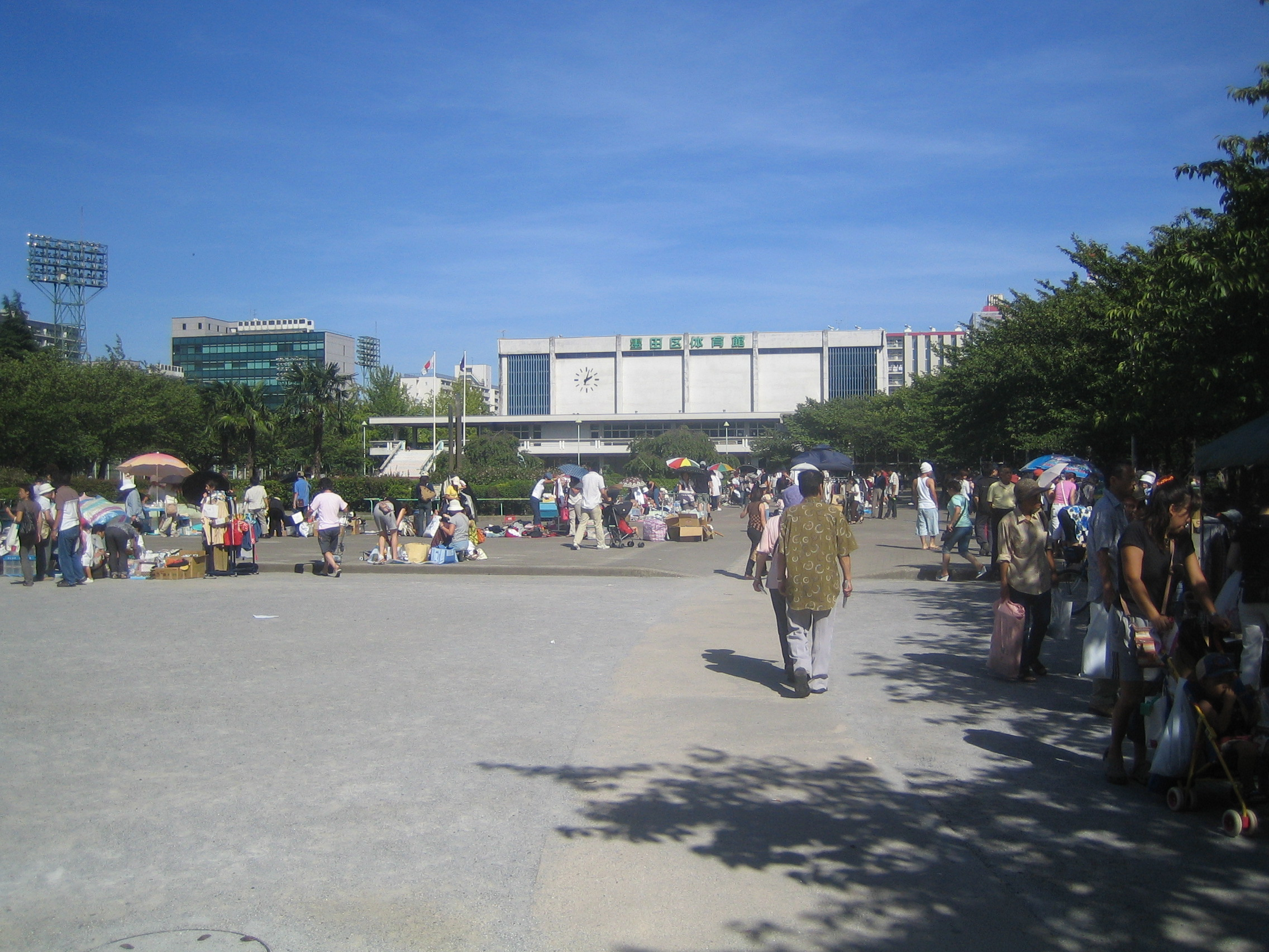 Kinshi Park (錦糸公園), at Kinshi, Sumida, Tokyo, Japan